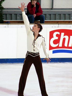 Tomas Janecko during his free skate at the 2004 Junior Grand Prix event in Germany